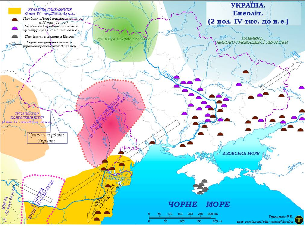 Early eneolit in Ukraine (IV millennium BC.)